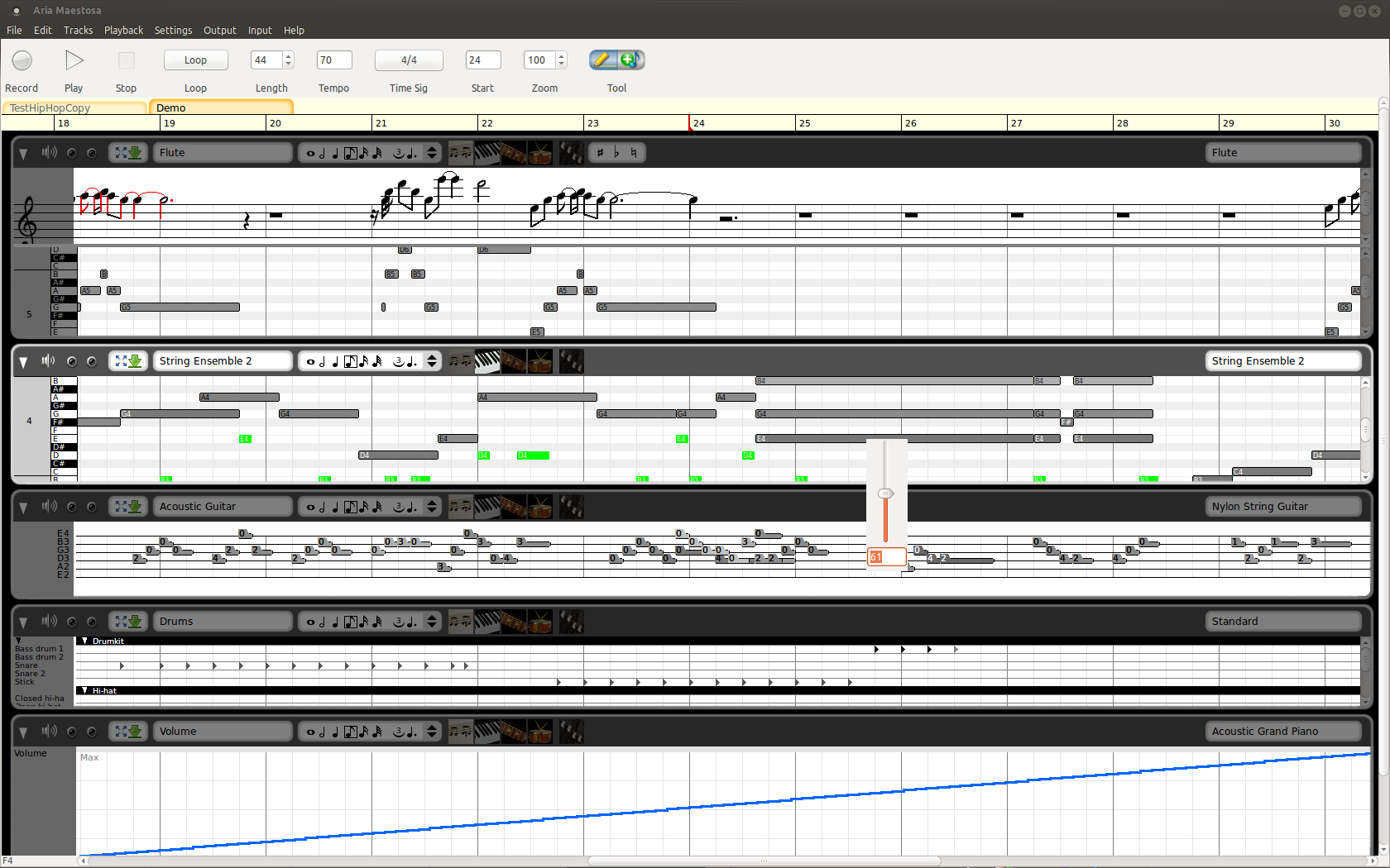 Aria Maestosa screenshot